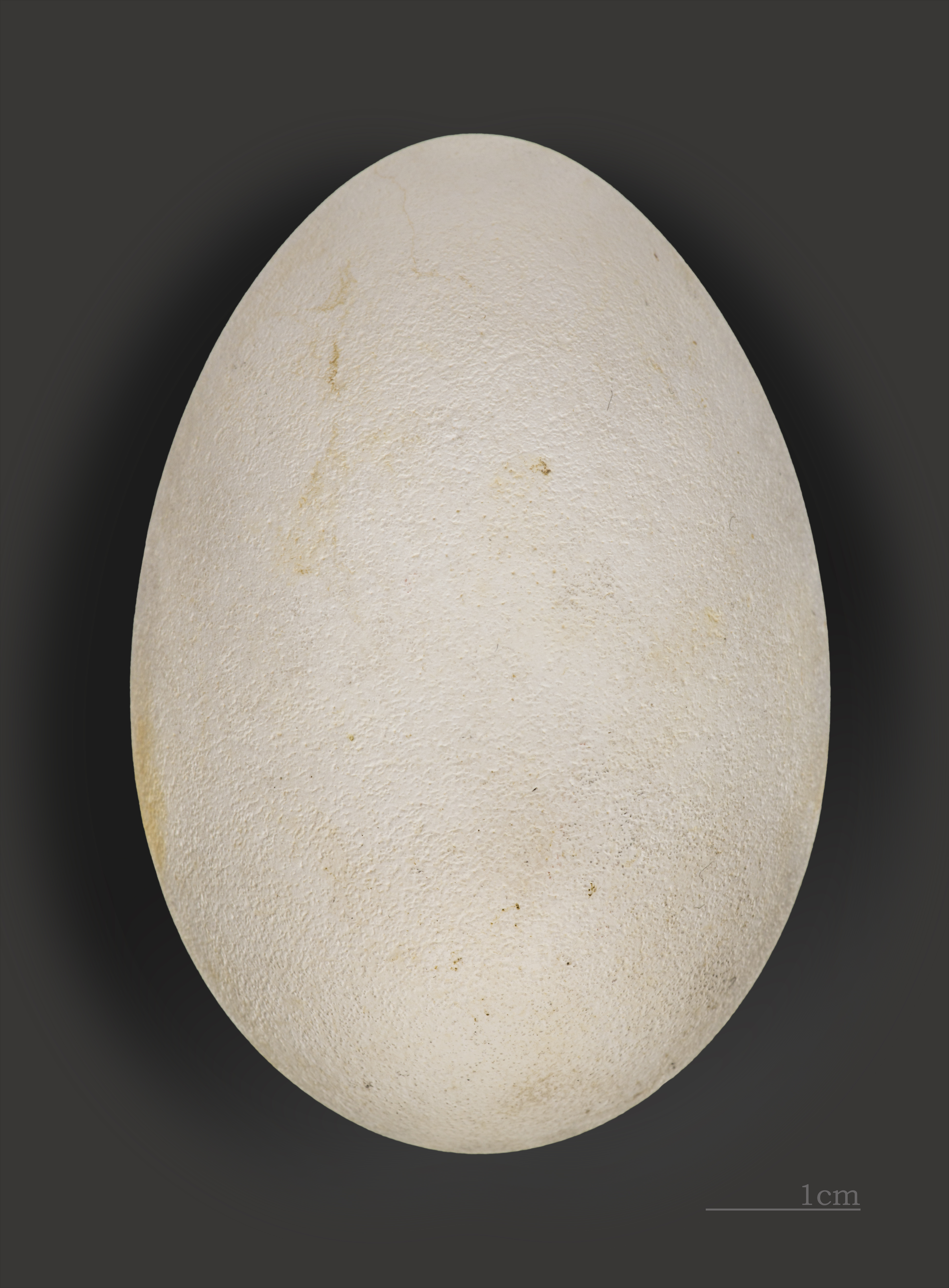 Egg of Northern fulmar. Collection of Jacques Perrin de Brichambaut.